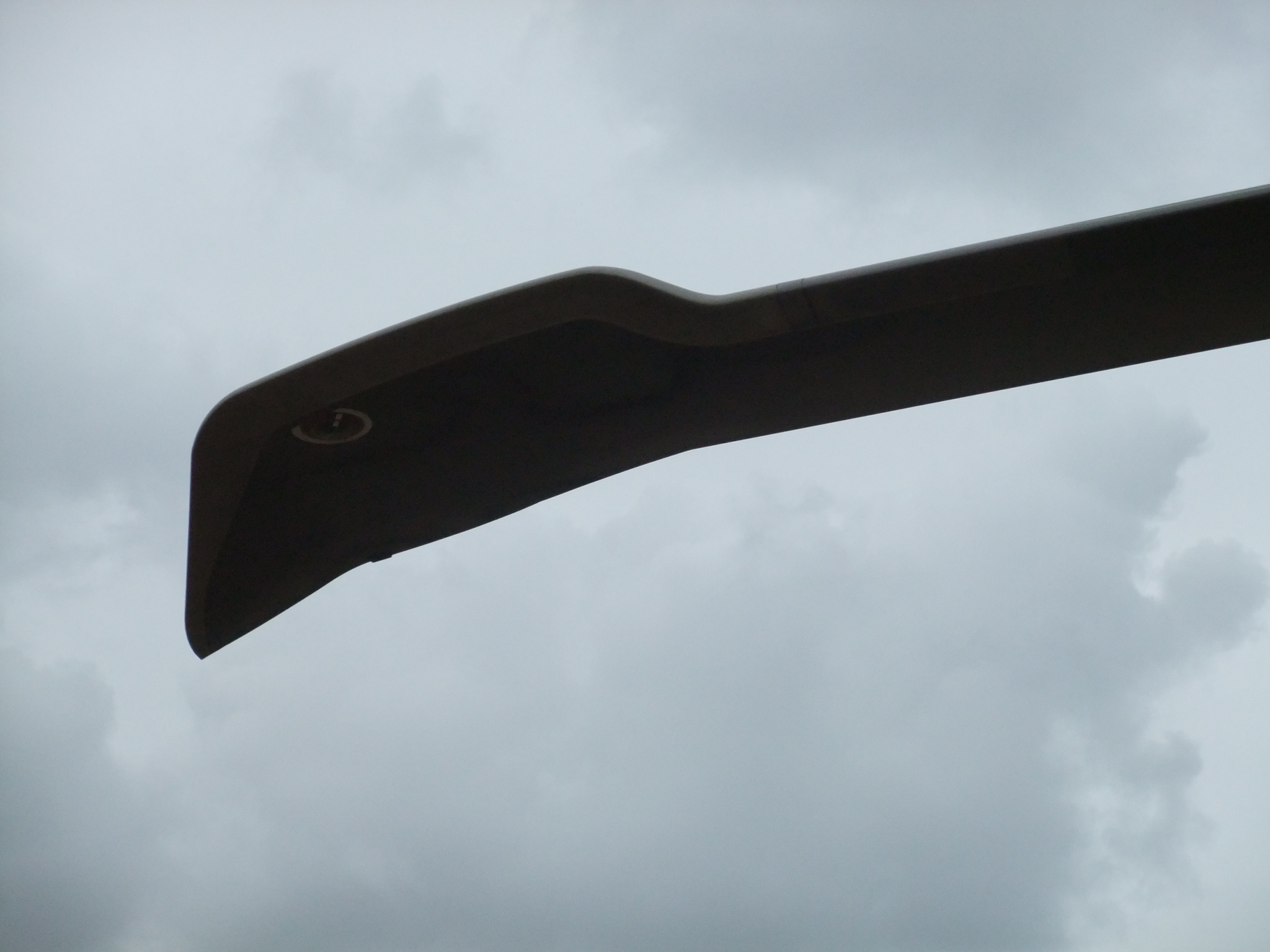 Merlin helicopter, Southport Airshow 2010, BERP 3 Delta wing shaped rotor blade tips